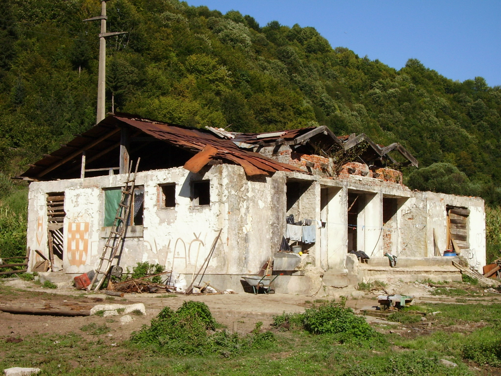 Ruins in Krezluk, Jajce municipality, Central Bosnia. The village of Krezluk was totally destroyed in Bosnia war.